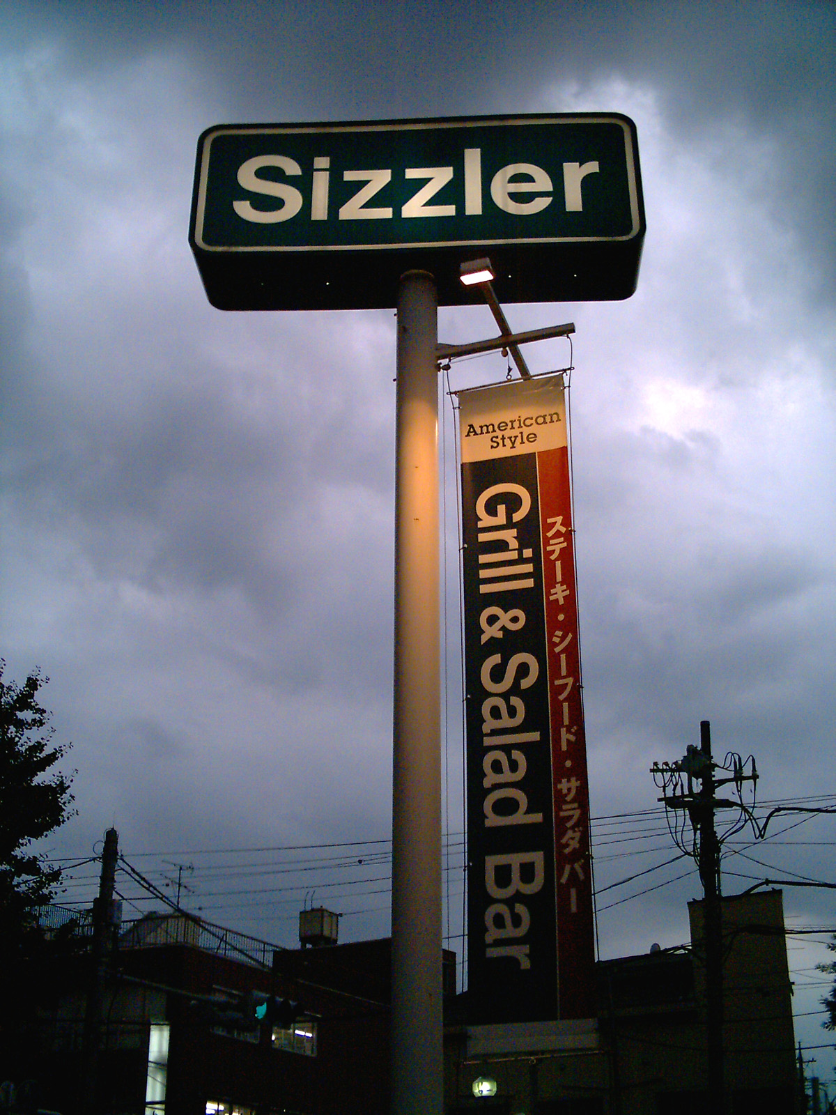 Sizzler_Restaurant_musashino City japan photography day, 2006.9.29. photography person kici